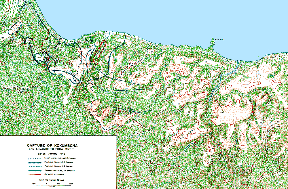 U.S. forces capture Kokumbona on Guadalcanal, January 23-25, 1943